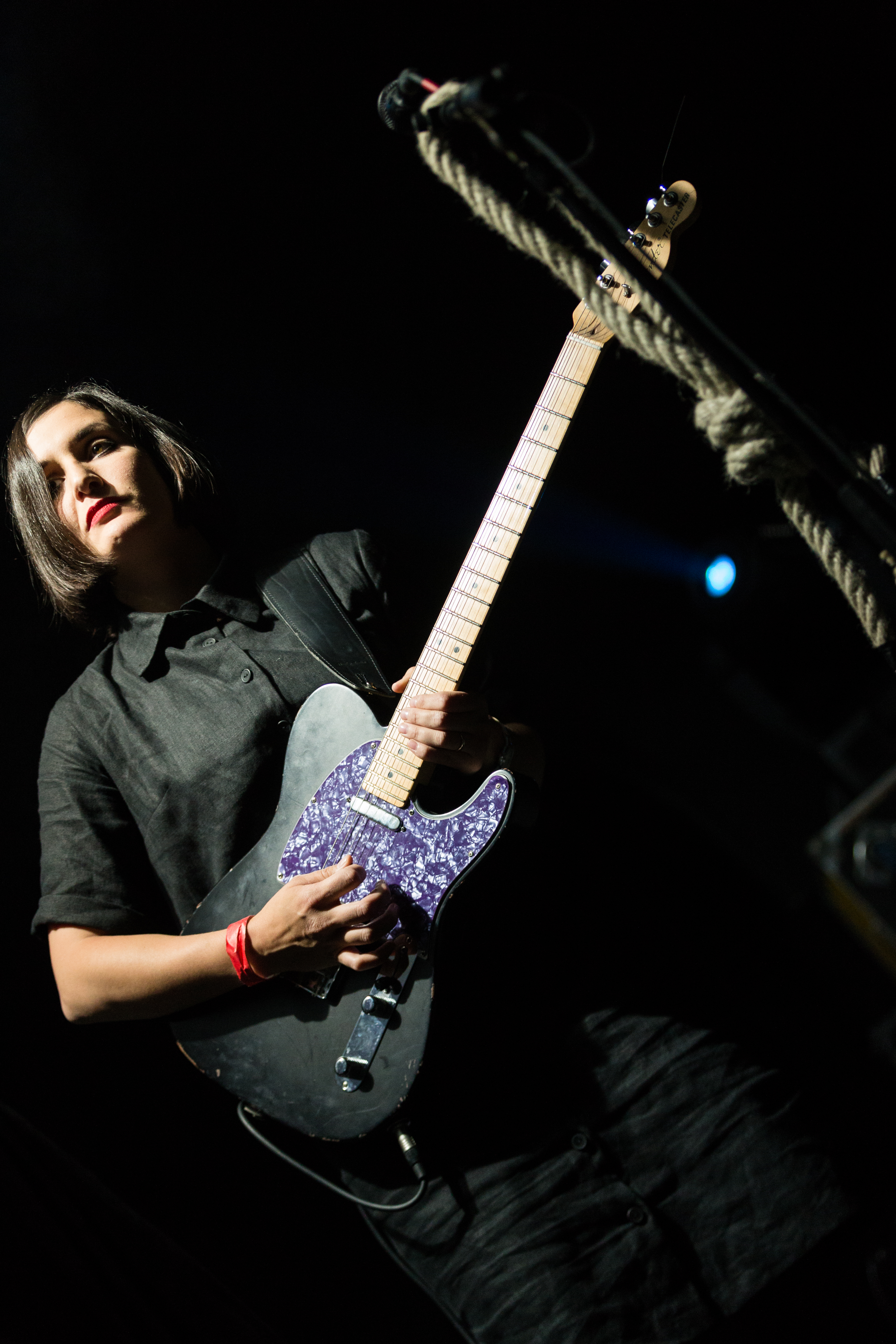 The Swiss-british dark wave band Lebanon Hanover at the Wave-Gotik-Treffen 2017 in Leipzig/Germany (Venue Stadtbad).